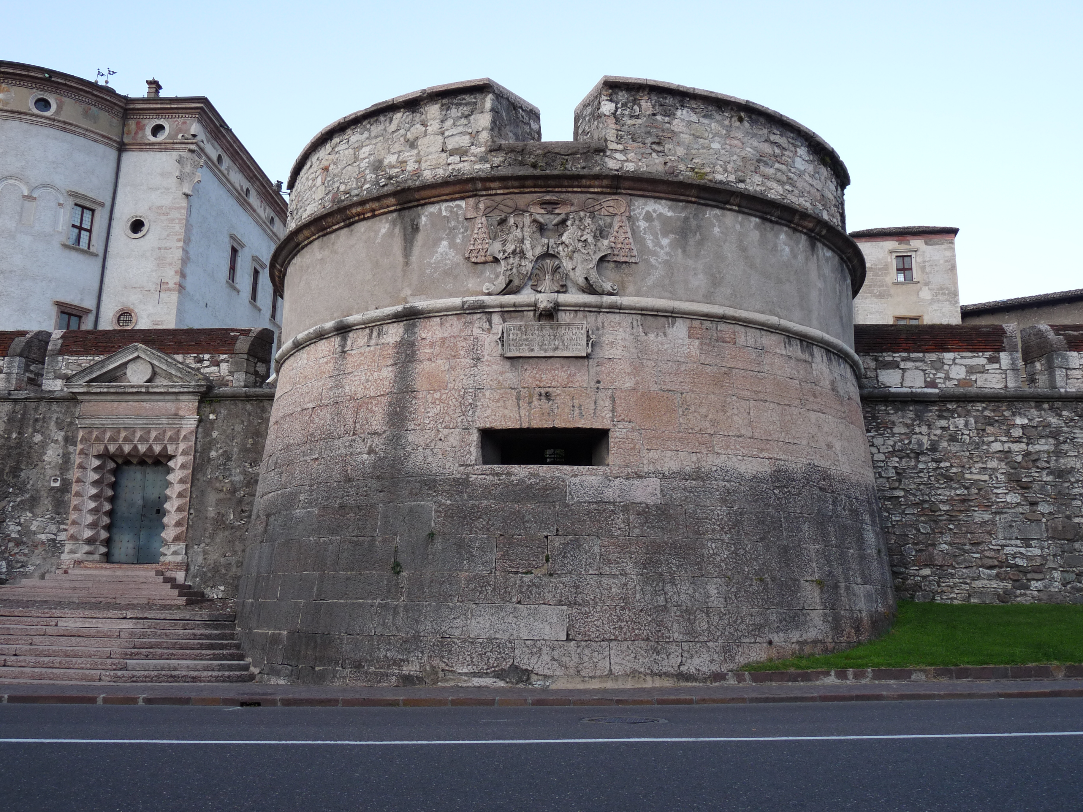 Trento (Italy): bastion at entrance of Castello del Buonconsiglio